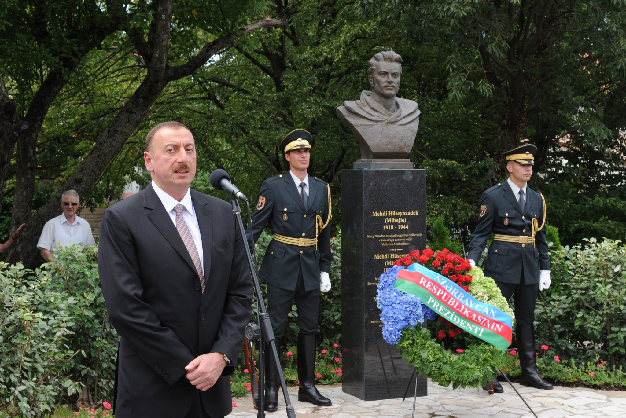 Ilham Aliyev visited a memorial of the Hero of the Soviet Union, Mehdi Huseynzadeh, in the Slovenian town of Nova Gorica